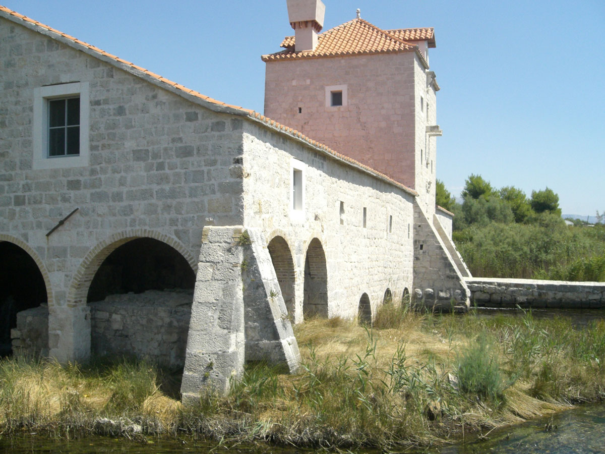 Special Orinthological and Ichtyologic Reserve "Pantan"